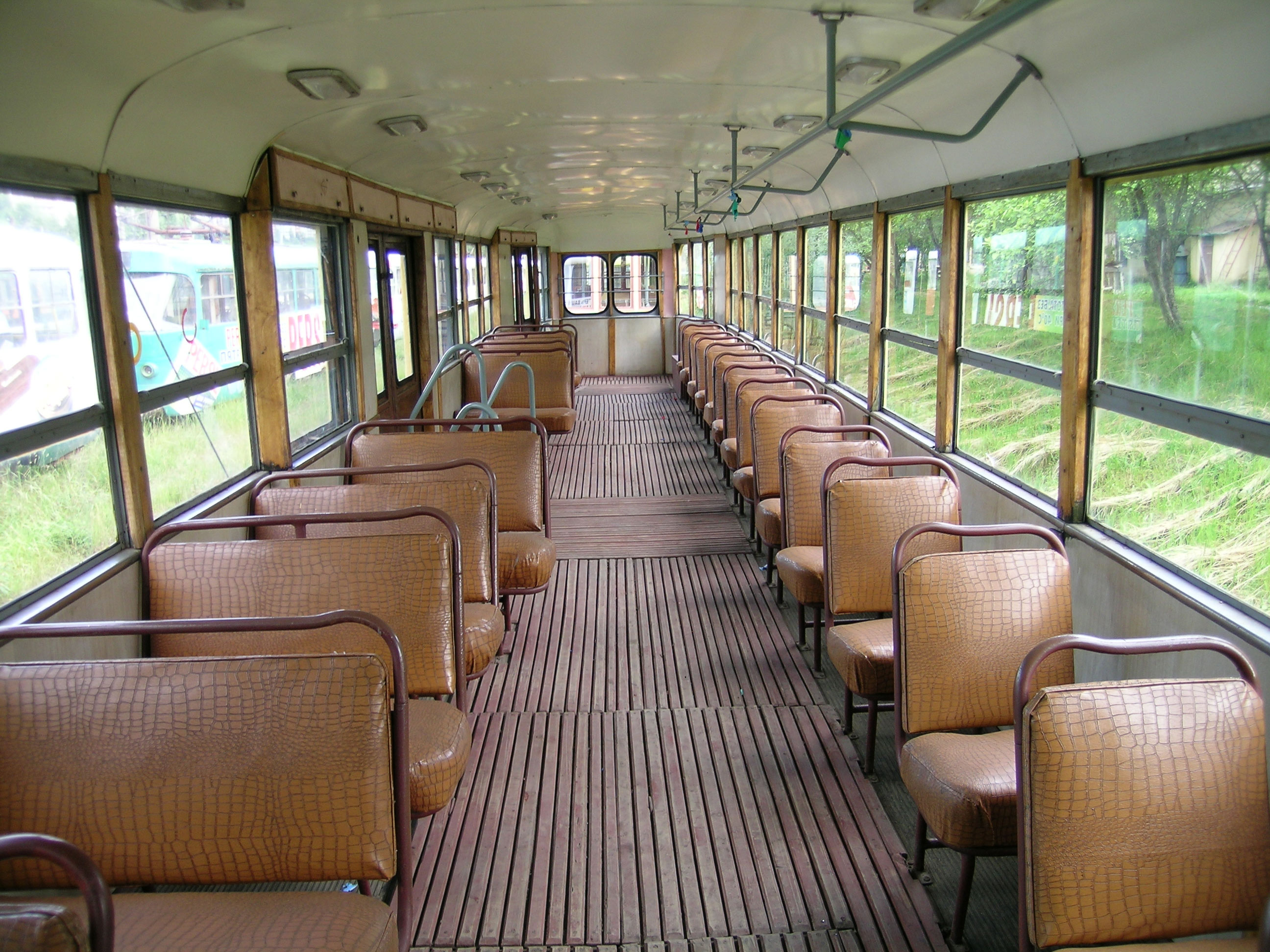 The passengers' compartment of LM-49 tramcar